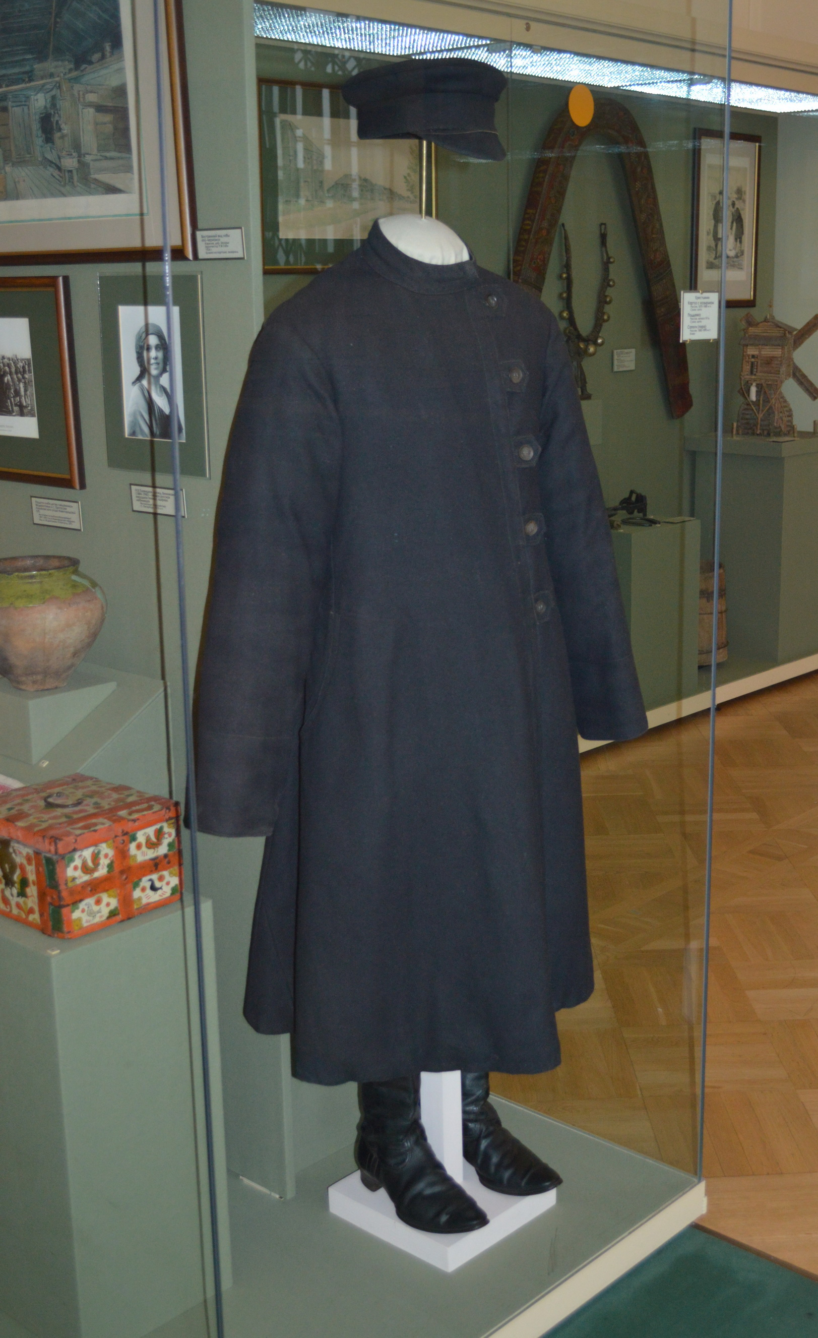 Peasant male costume, Russia, end of 19 c.